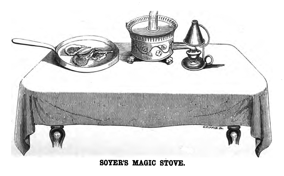 Image of "Soyer's Magic Stove"